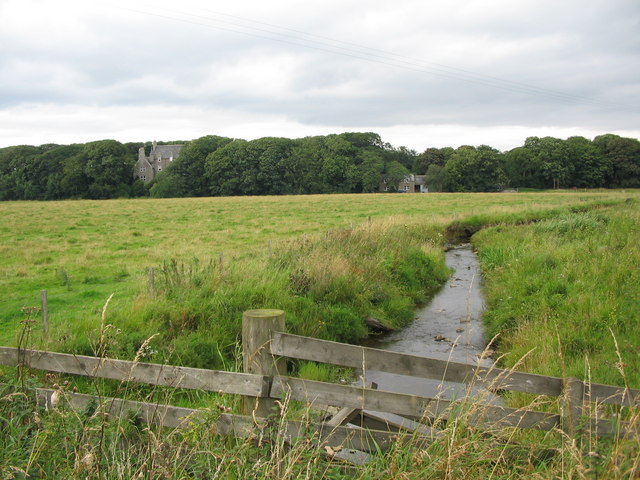 Braal Castle. A view looking to the northwest across the Sibster burn towards Braal Castle.